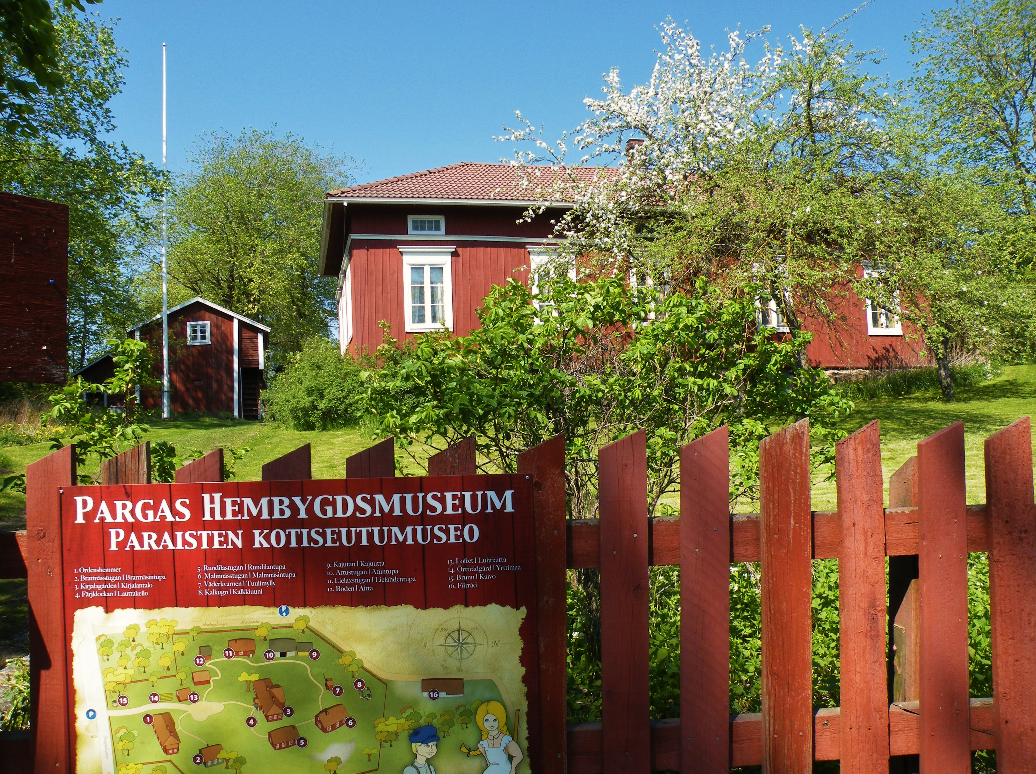 Very unique local history museum where to old buildings have been moved around the archipelago of Parainen, Finland. There are old timber houses even from 17th century